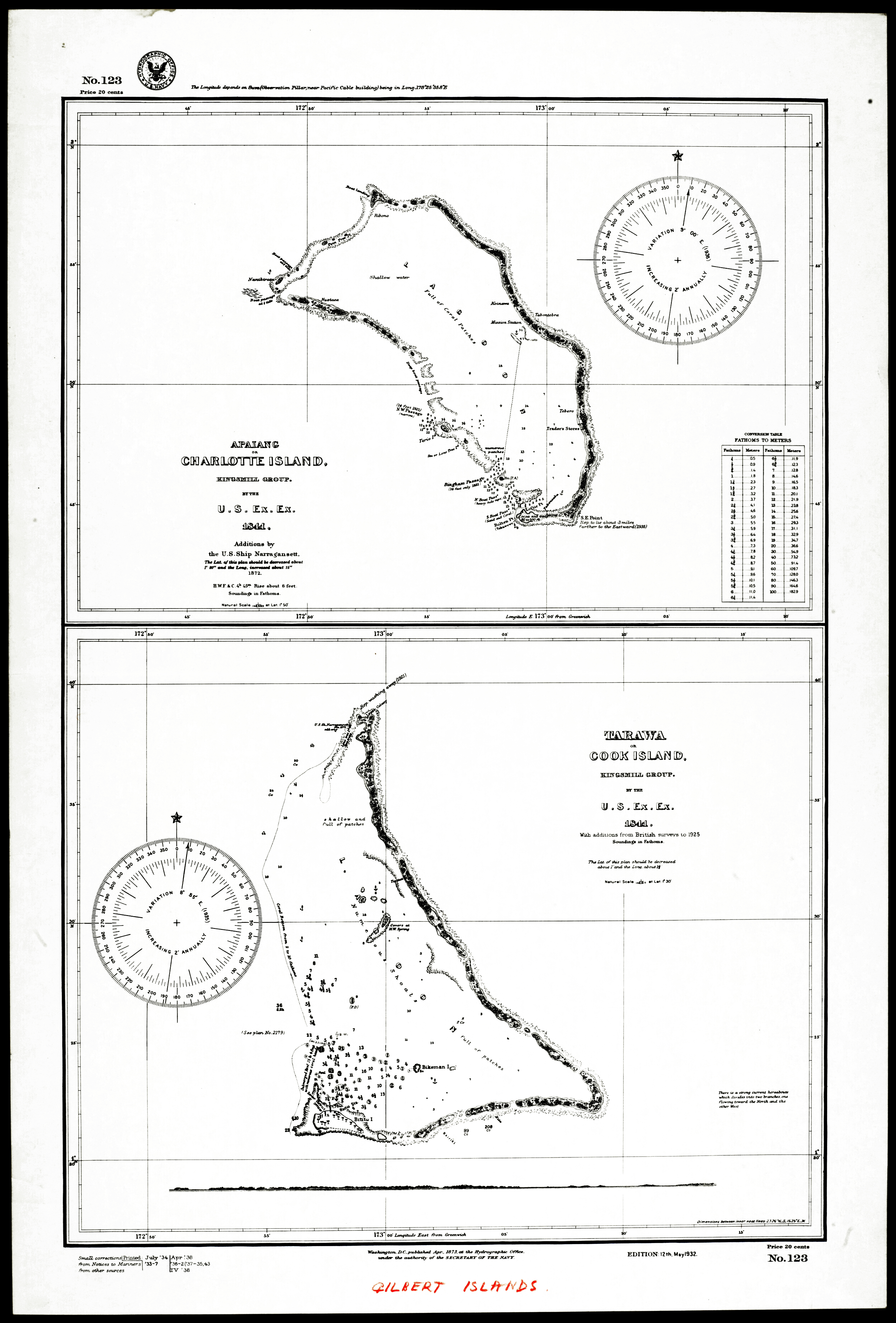 map of Abaiang and Tarawa atolls, Gilbert Islands, Kiribati